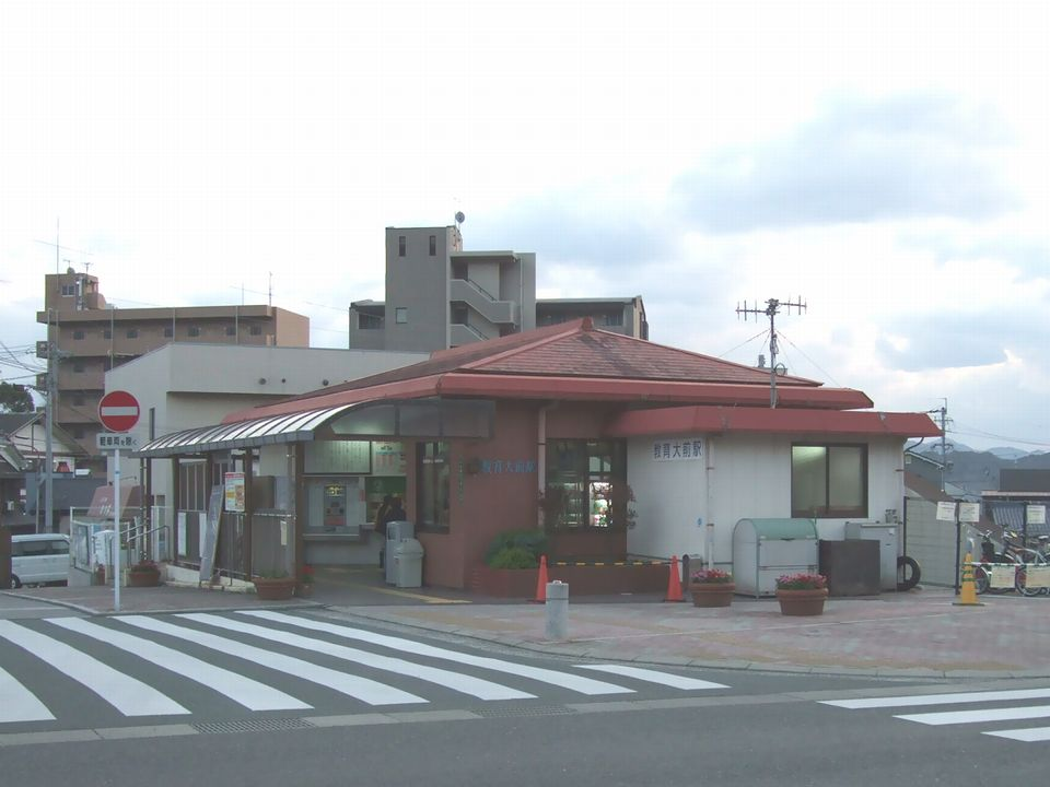 Kyushu Railway Company Kyoikudaimae Station